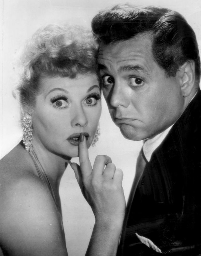 Publicity photo of Lucille Ball and Desi Arnaz for The Lucille Ball-Desi Arnaz Show. This is from the premiere episode of the show where Ball and Arnaz travel to Havana and relive their meeting and falling in love.